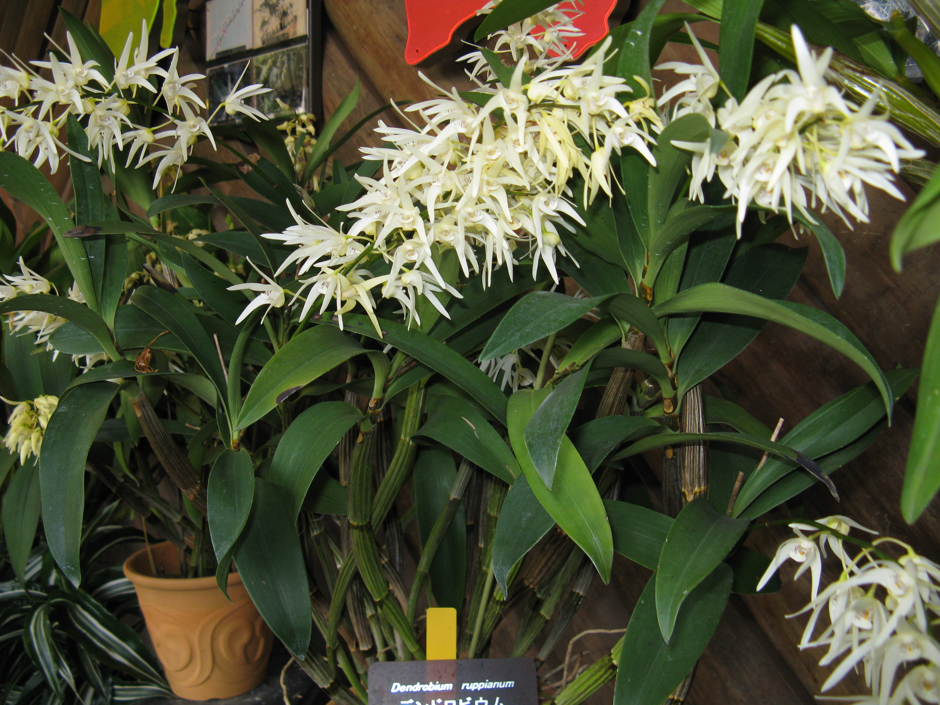 Scientific name Dendrobium ruppianum Place:Osaka Prefectural Flower Garden,Osaka,Japan